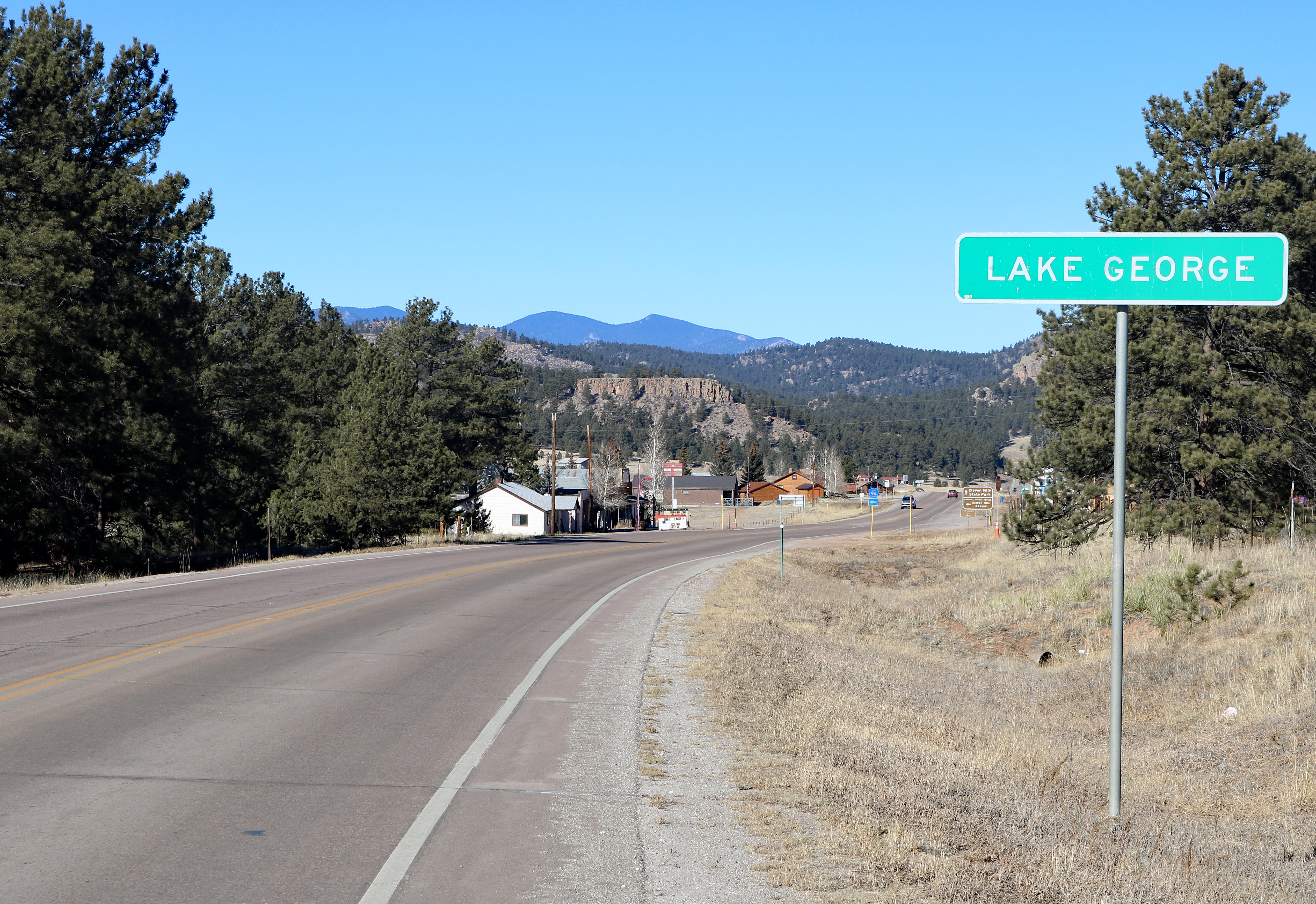 A view of the unincorporated community of Lake George, Colorado in Park County. The highway is U.S. Route 24.